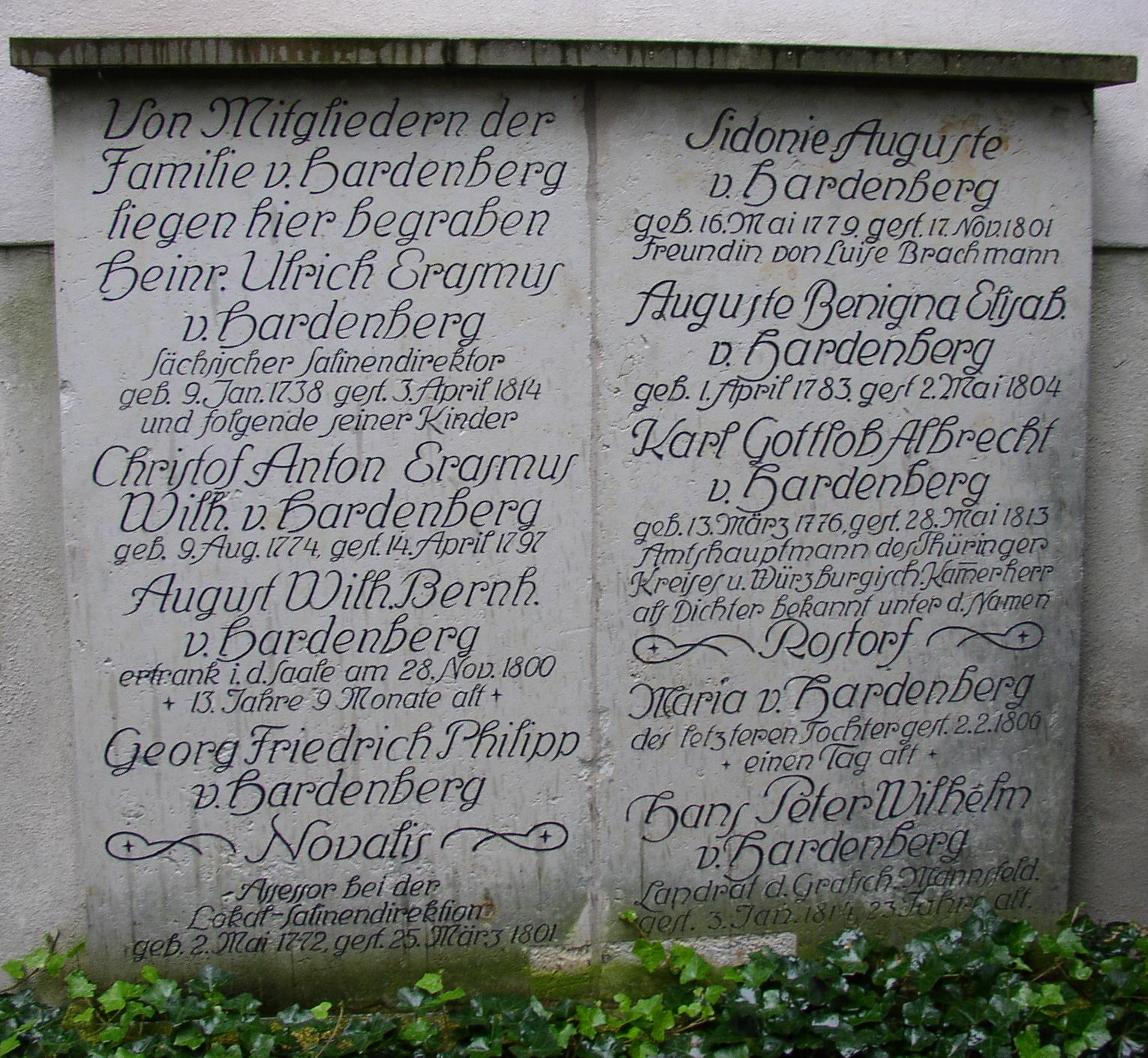 Novalis grave in Weißenfels in Saxony-Anhalt, Germany